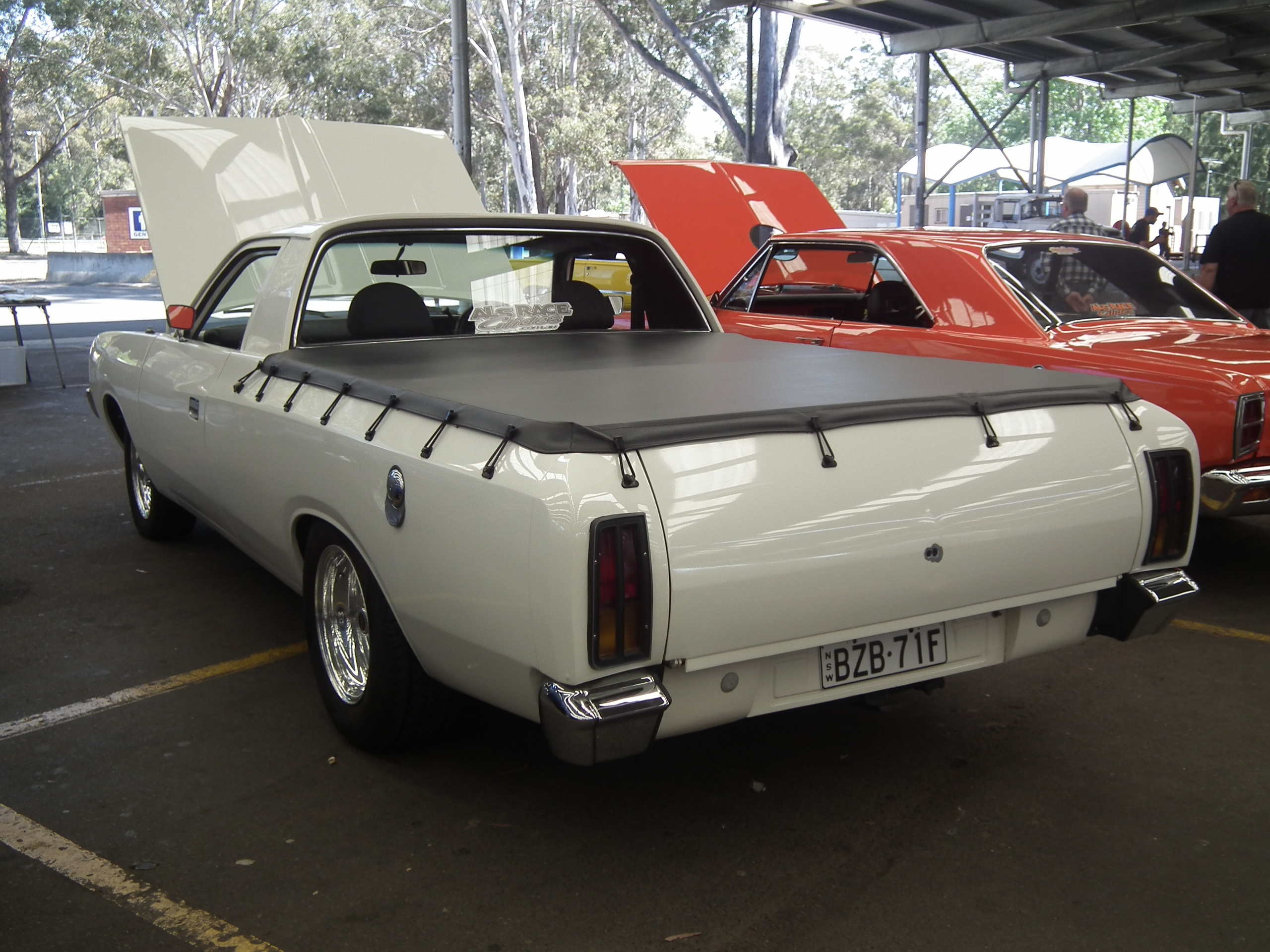 1971 Chrysler VH Valiant utility. Taken at the 2014 New South Wales All Chrysler Day, held at Fairfield Showground, Prairiewood, Sydney.